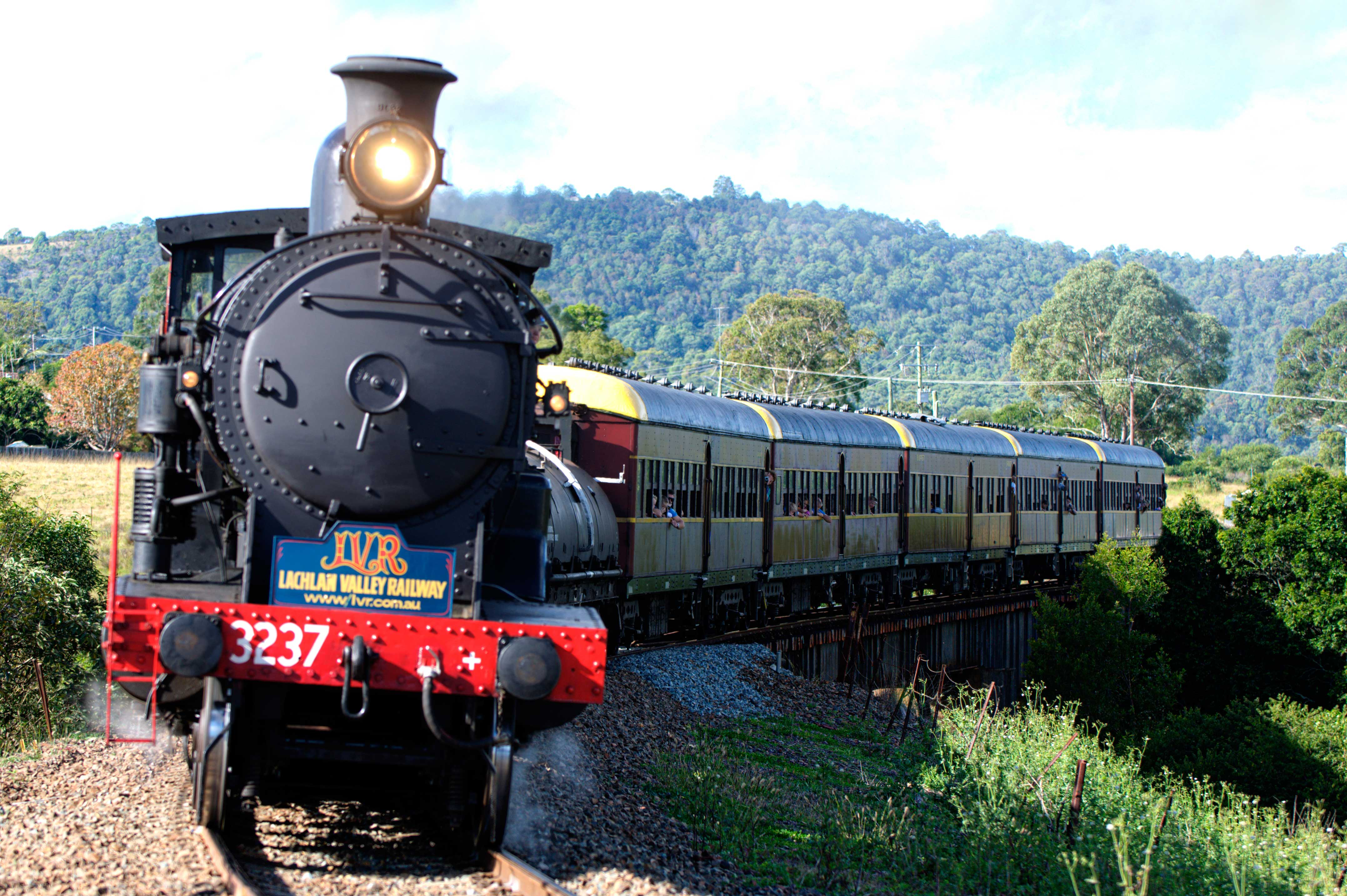 LVR Locomotive 3237 at Taree Railway Centenary 2013